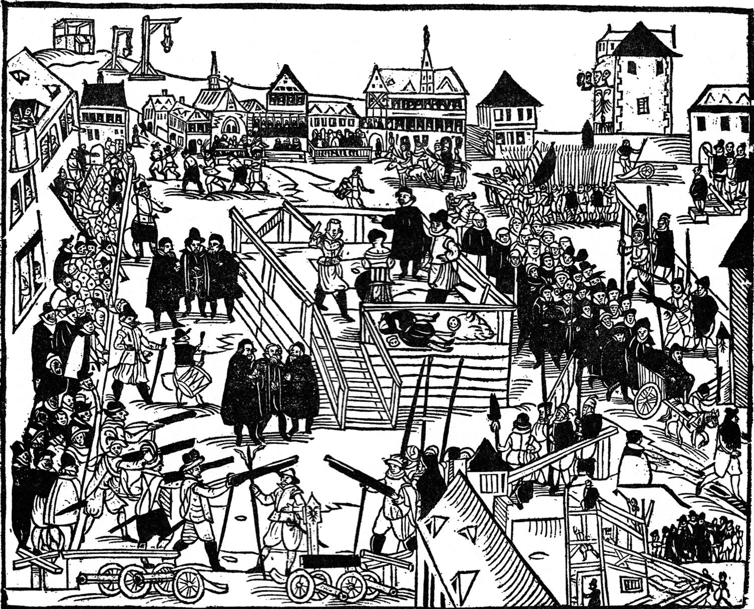 The execution of Vinzenz Fettmilchs at the Roßmarkt in Frankfurt am Main on February 28, 1616, woodcut 1616